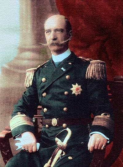 Georgios I, King of Greece (b.1845-d.1913)